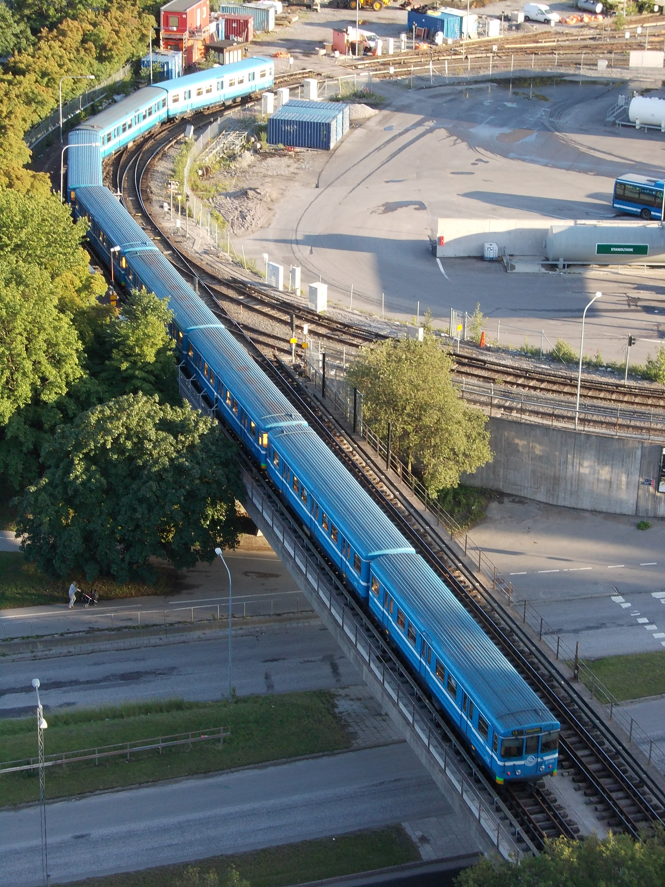 Stockholm Subway Train